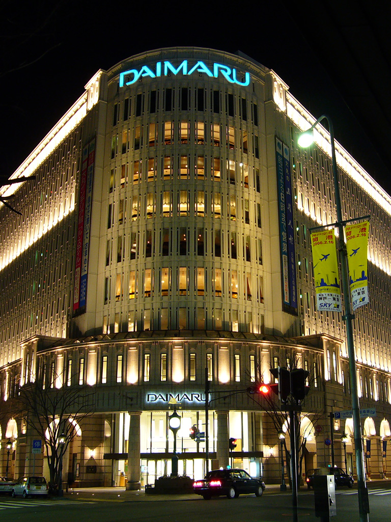 Kobe Daimaru Building in Kobe, Hyogo prefecture, Japan